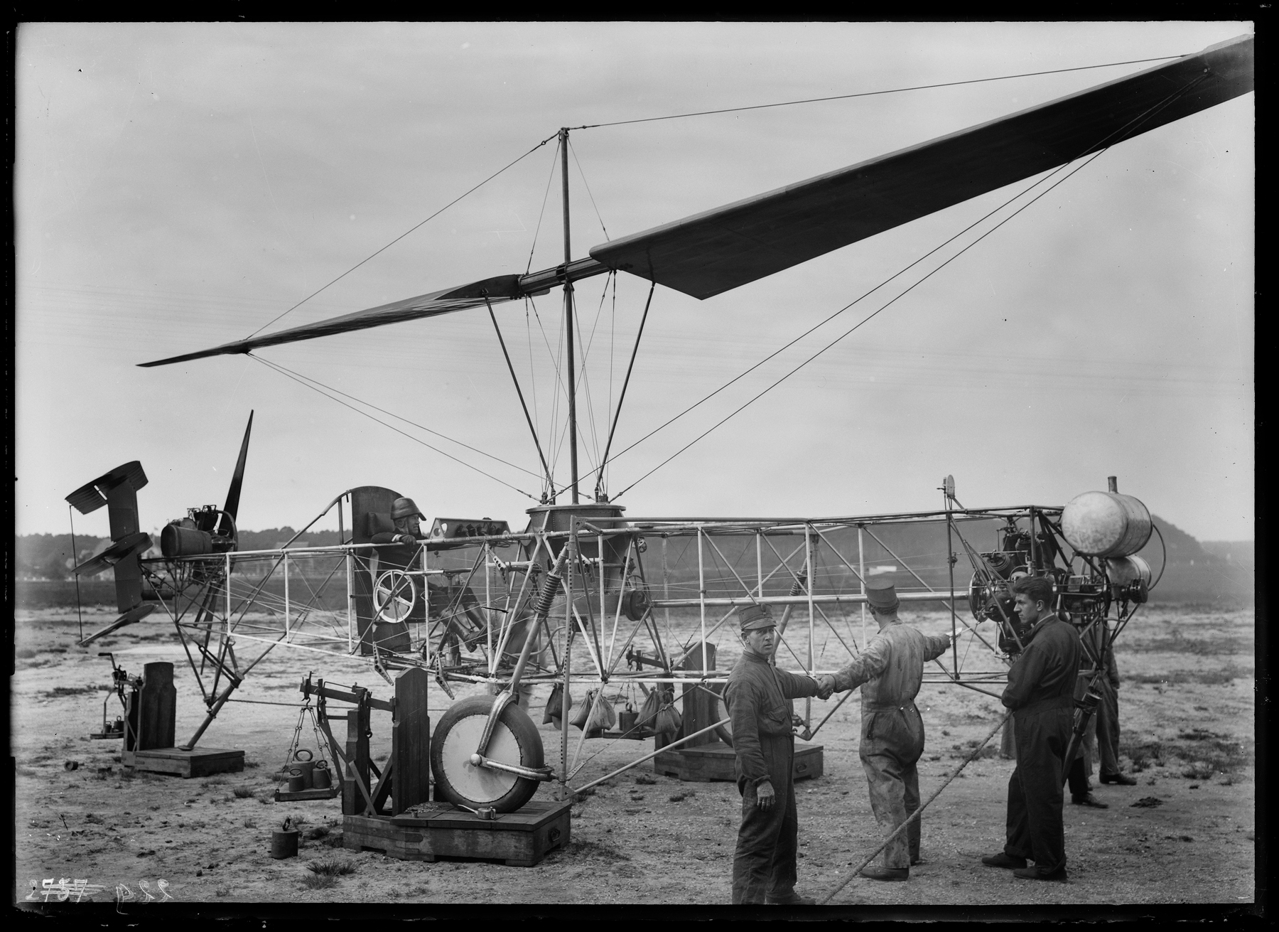 Wegen van de experimentele helikopter van de Nederlandse luchtvaartpionier ir. A.G. von Baumhauer in 1925 op Soesterberg na assemblage met de vlieger aan boord. Plaats Soesterberg, Utrecht, Nederland, Pilot: F.H. van Heyst More images from the collection of the Nederlands Instituut voor Militaire Historie on Flickr are to be found at: Voor meer beelden uit de collectie van het Nederlands Instituut voor Militaire Historie kijk op